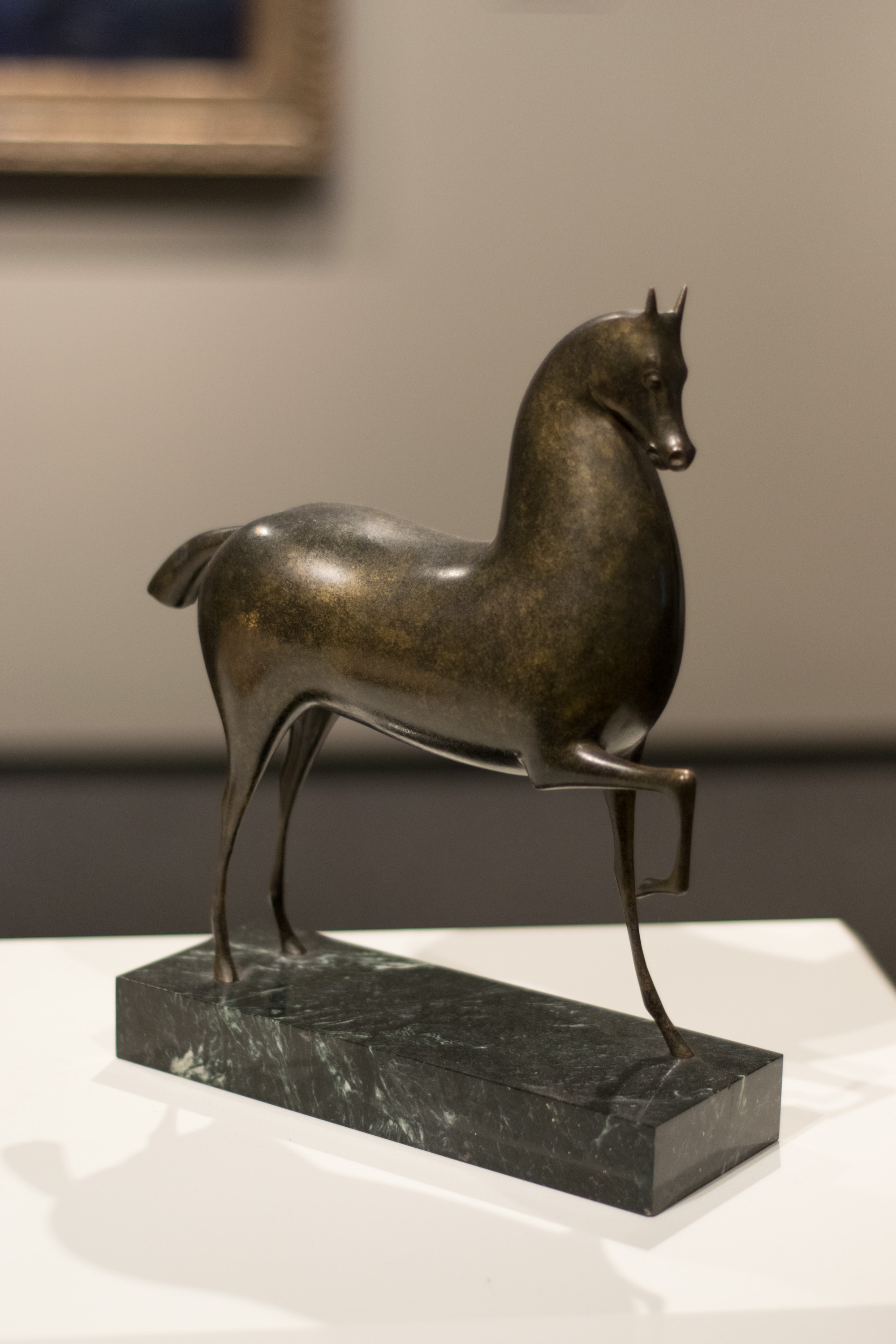 Horse